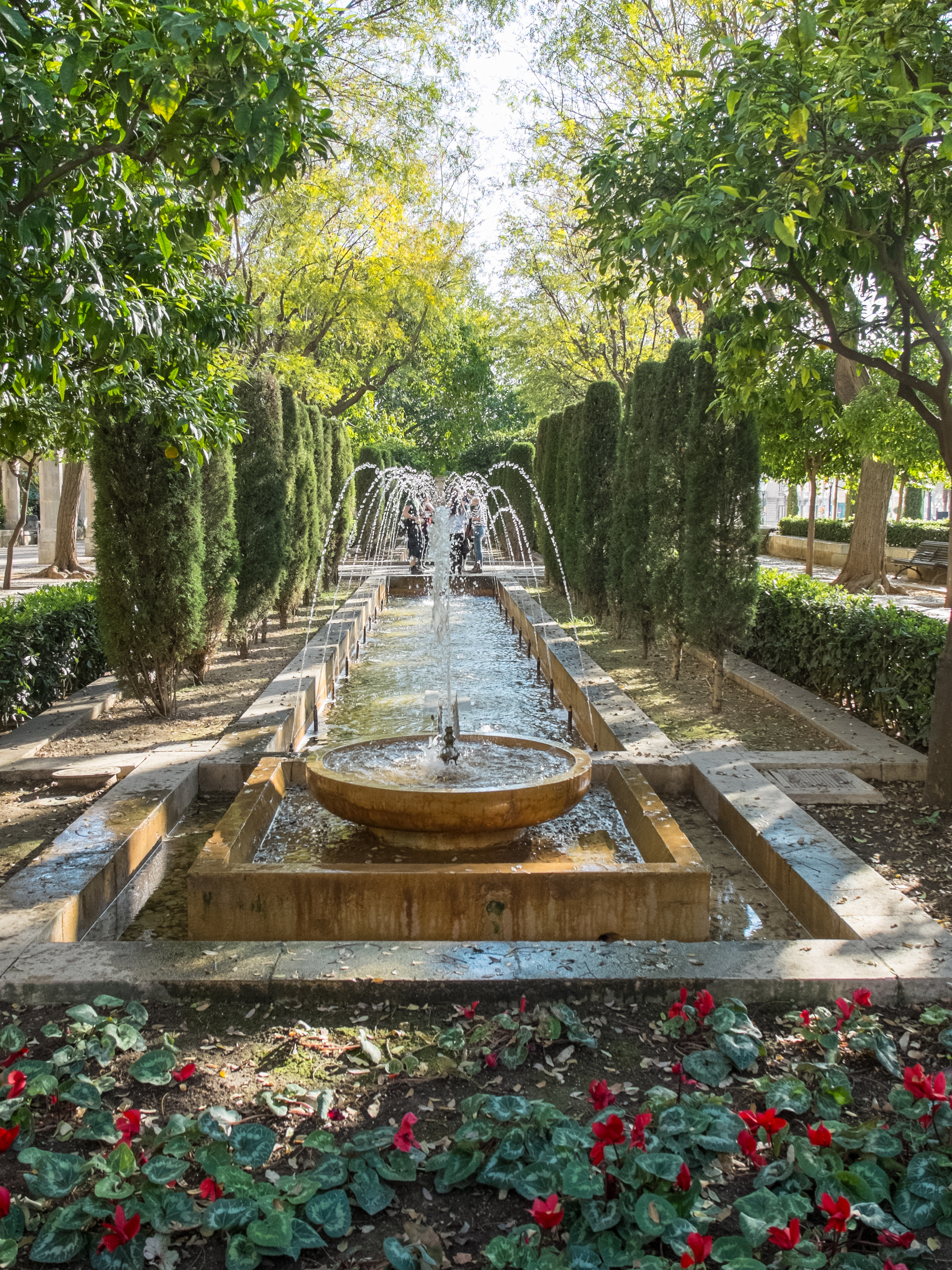 Park nearby the Palma de Mallorca cathedral